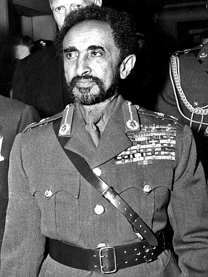 Press photo of Haile Selassie visiting Washington, D.C. to meet with president Eisenhower.